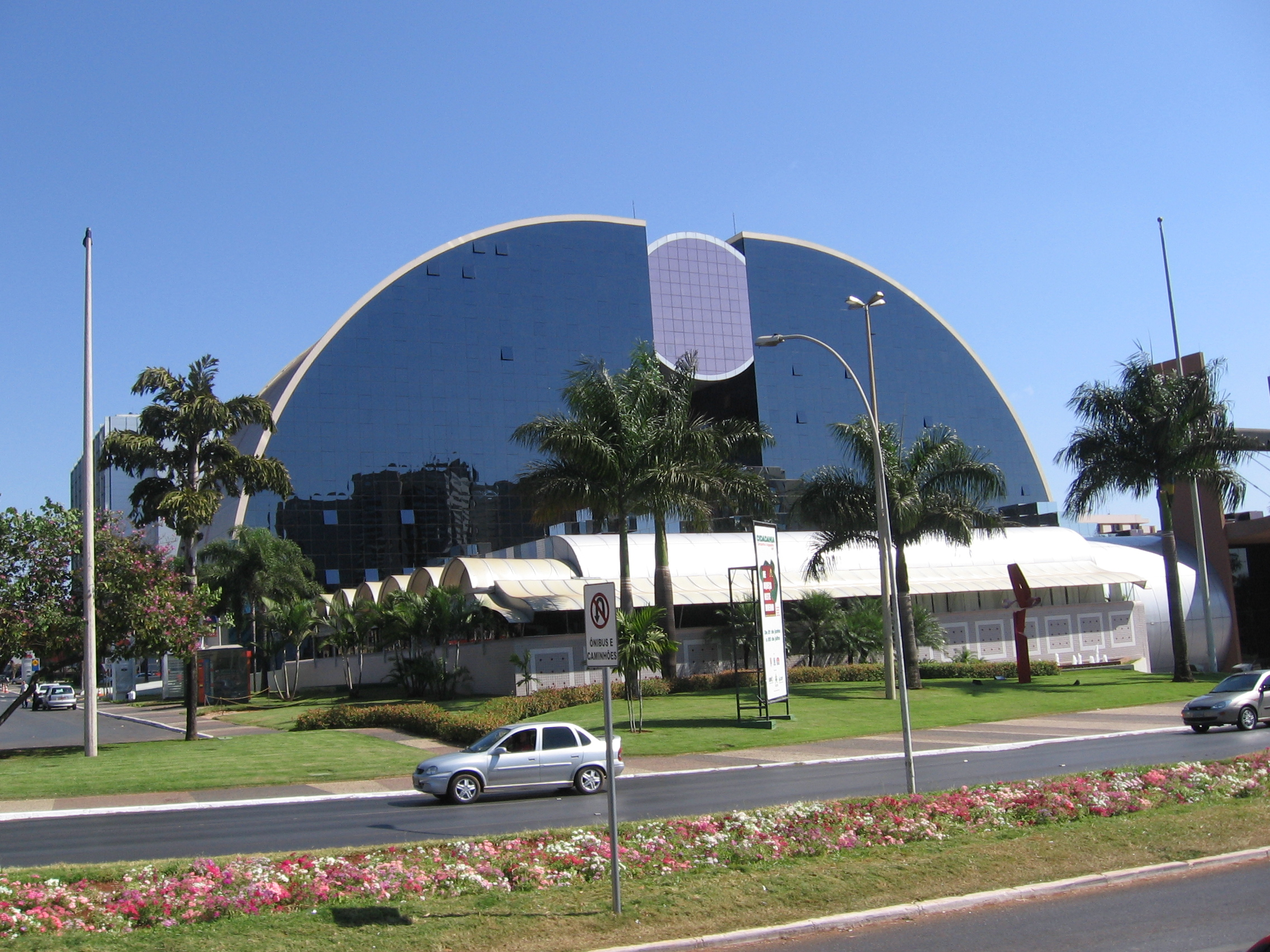 Brasília Shopping, W3 view